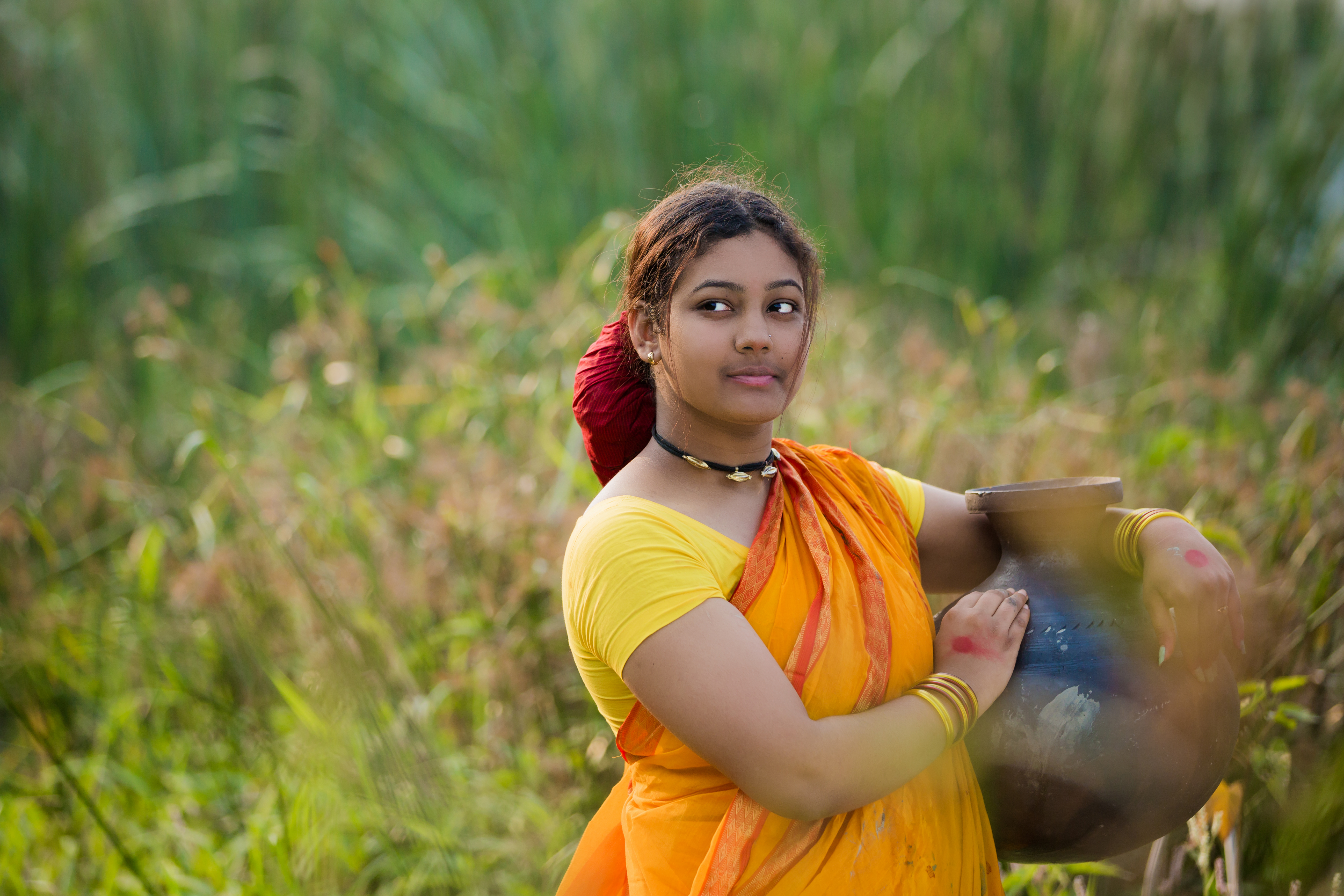 A village girl is collecting water from Chitra river